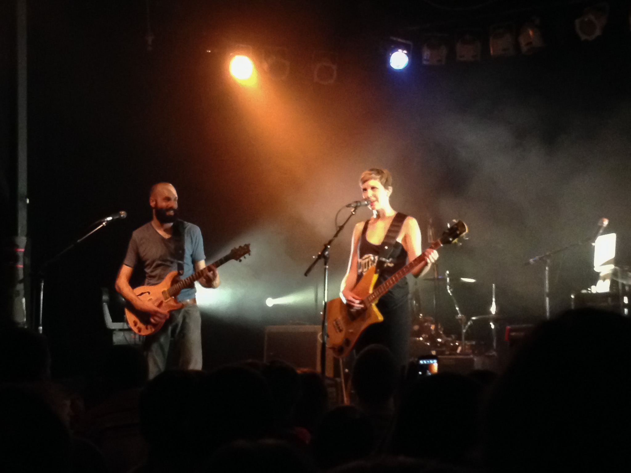 Pomplamoose performing in 2014